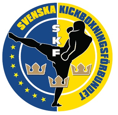 Logotyp for the organisation Swedish Kickboxing Federation.